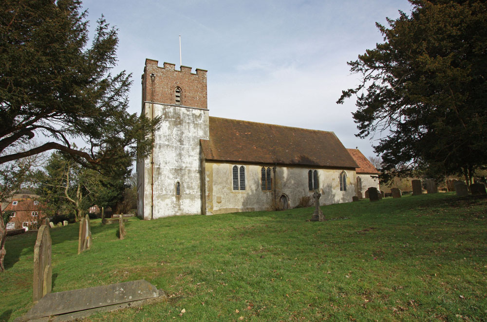 All Saints, Petham, Kent